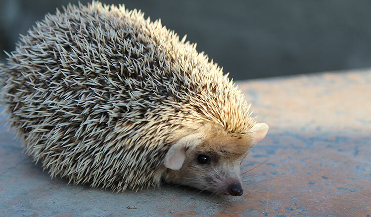 Erinaceidae in Tehran